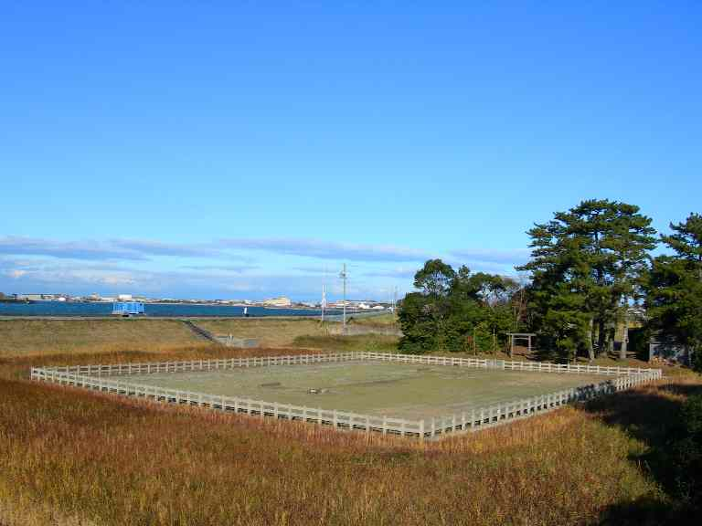 Mishiohama is a salt evaporation pond of Jingu, Futami-cho, Ise city Mie prefecture, Japan.